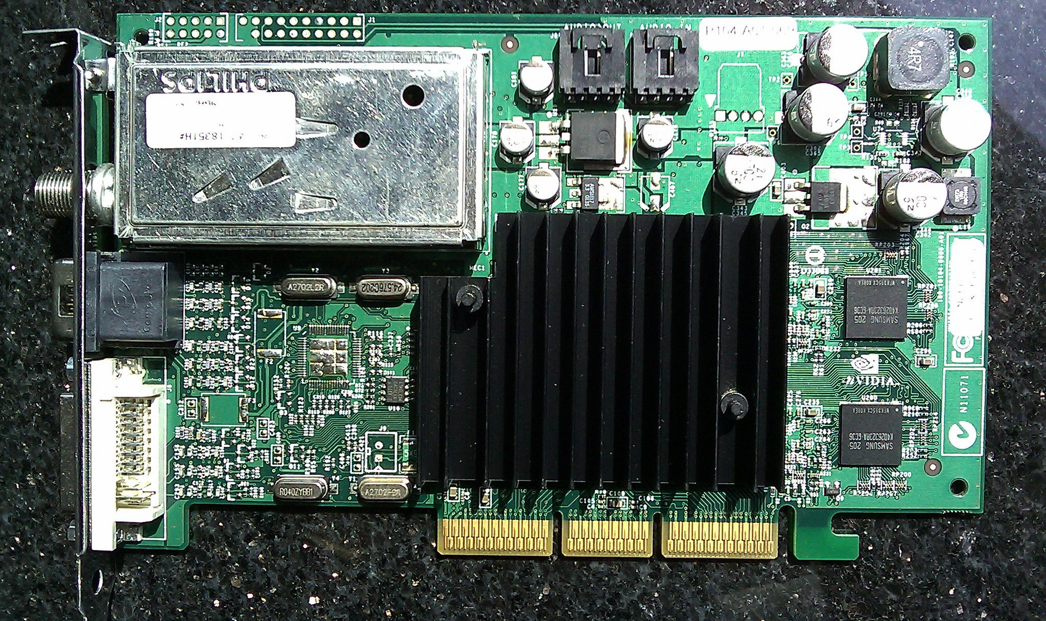 NVIDIA engineering sample graphic card